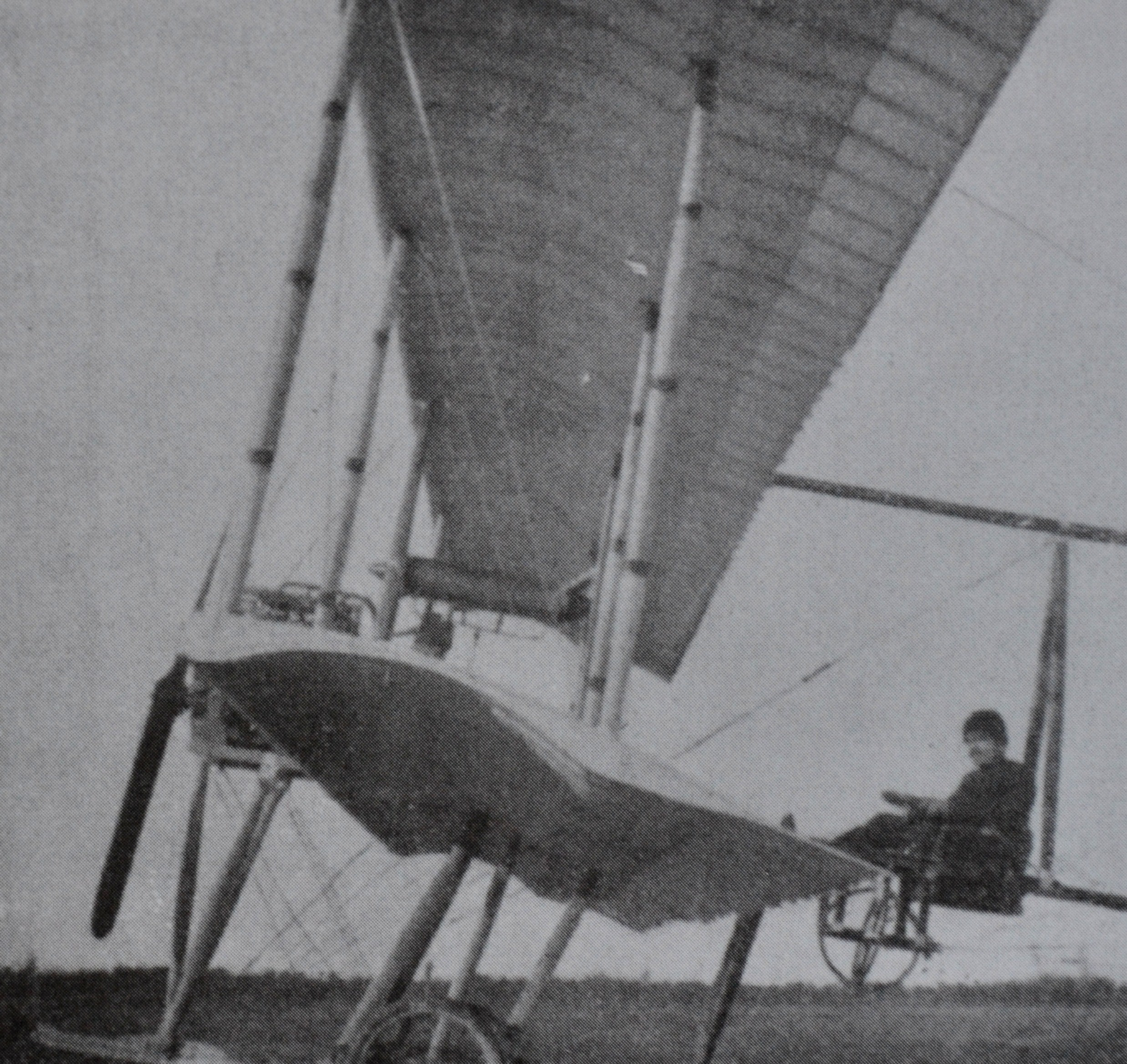 "Side view of the fifth type of Caproni biplane" (translation of the original caption).